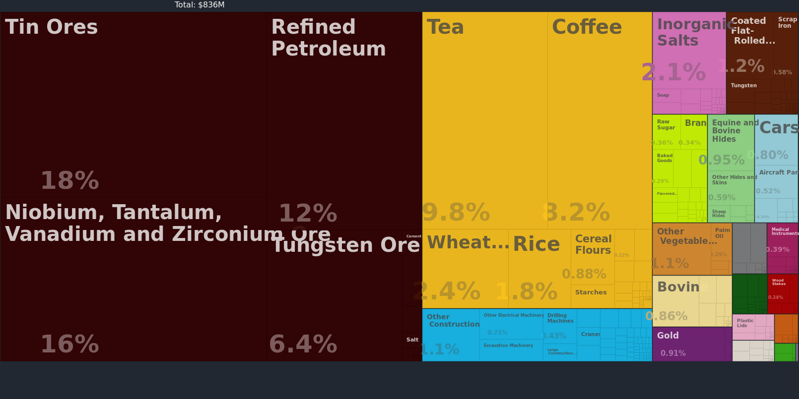 Graphical depiction of Rwanda's product exports in 28 color-coded categories.